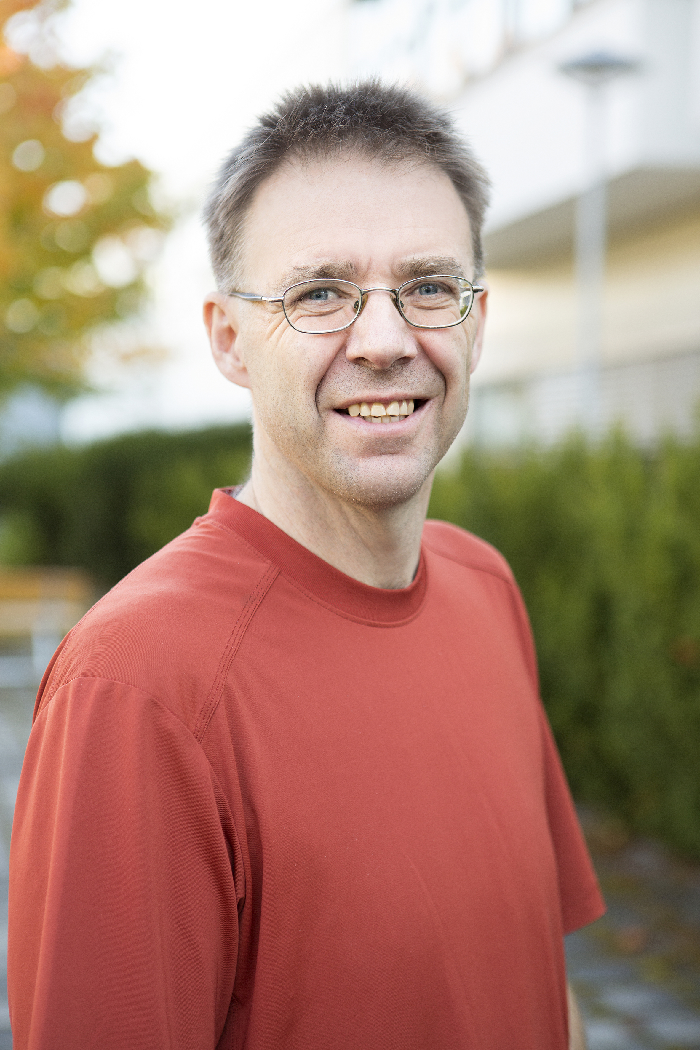 The Norwegian economist, professor at NTNU Trondheim, Lars-Erik Borge